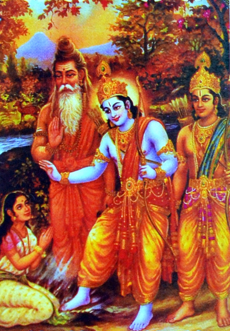 Cover page of Ahalyoddhara